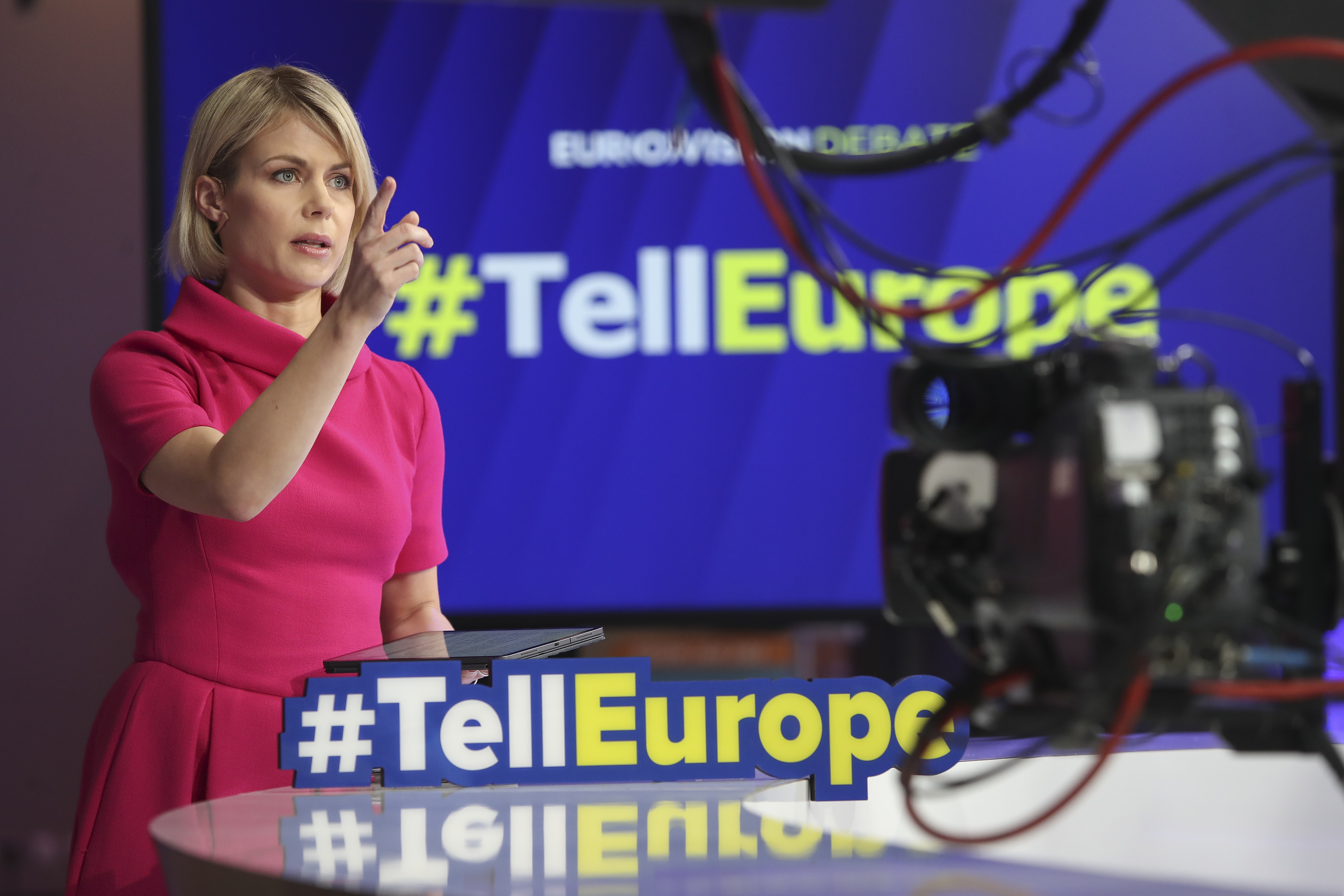 The live debate will be moderated by TV anchors Markus Preiss (ARD WDR), Emilie Tran-Nguyen (France Télévisions) and Annastiina Heikkilä (Yle) and broadcast by the EBU's public service media members and others throughout Europe. TellEurope & watch the full video here @ Speaking order for lead candidates is: Nico CUÉ, European Left (EL) Ska KELLER, European Green Party (EGP) Jan ZAHRADIL, Alliance of Conservatives and Reformists in Europe (ACRE) Margrethe VESTAGER, Alliance of Liberals and Democrats for Europe (ALDE) Manfred WEBER, European People’s Party (EPP) Frans TIMMERMANS, Party of European Socialists (PES) This photo is free to use under Creative Commons license CC-BY-4.0 and must be credited: "CC-BY-4.0: © European Union 2019 – Source: EP". No model release form if applicable. For bigger HR files please contact: webcom-flickr(AT)